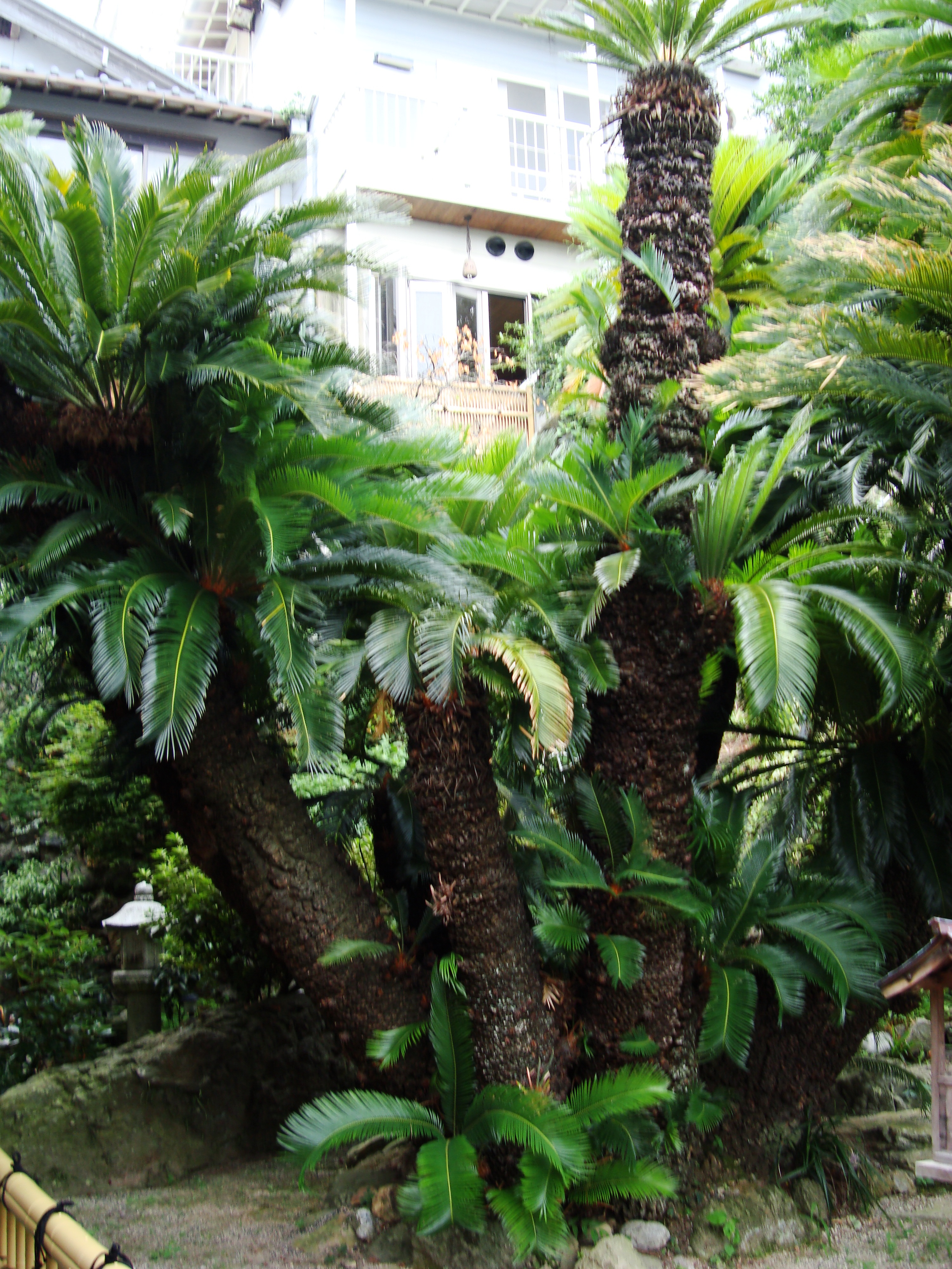 The cycad, the nothan end of Japan